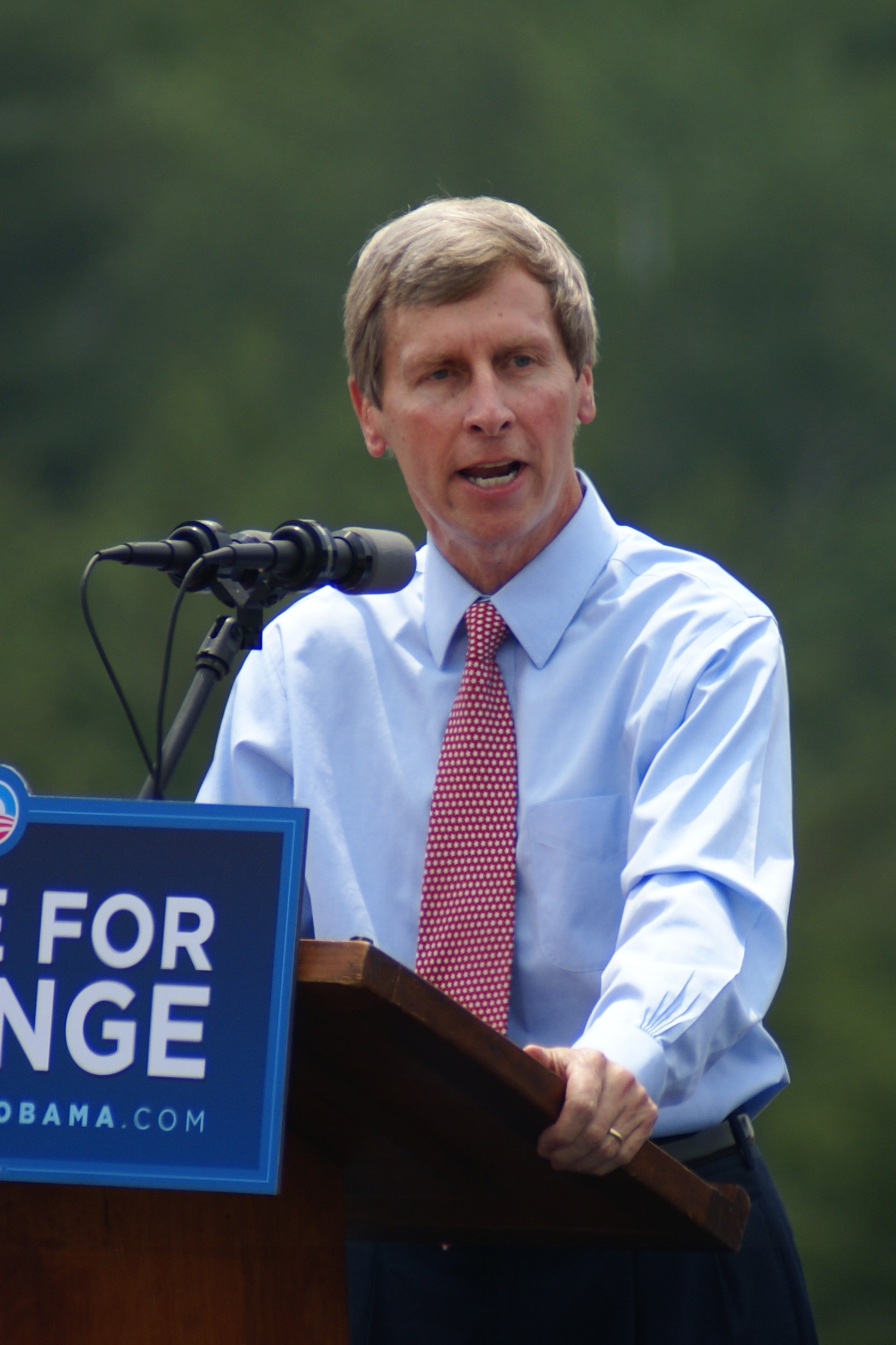 John Lynch at a rally for Barack Obama in June 2008